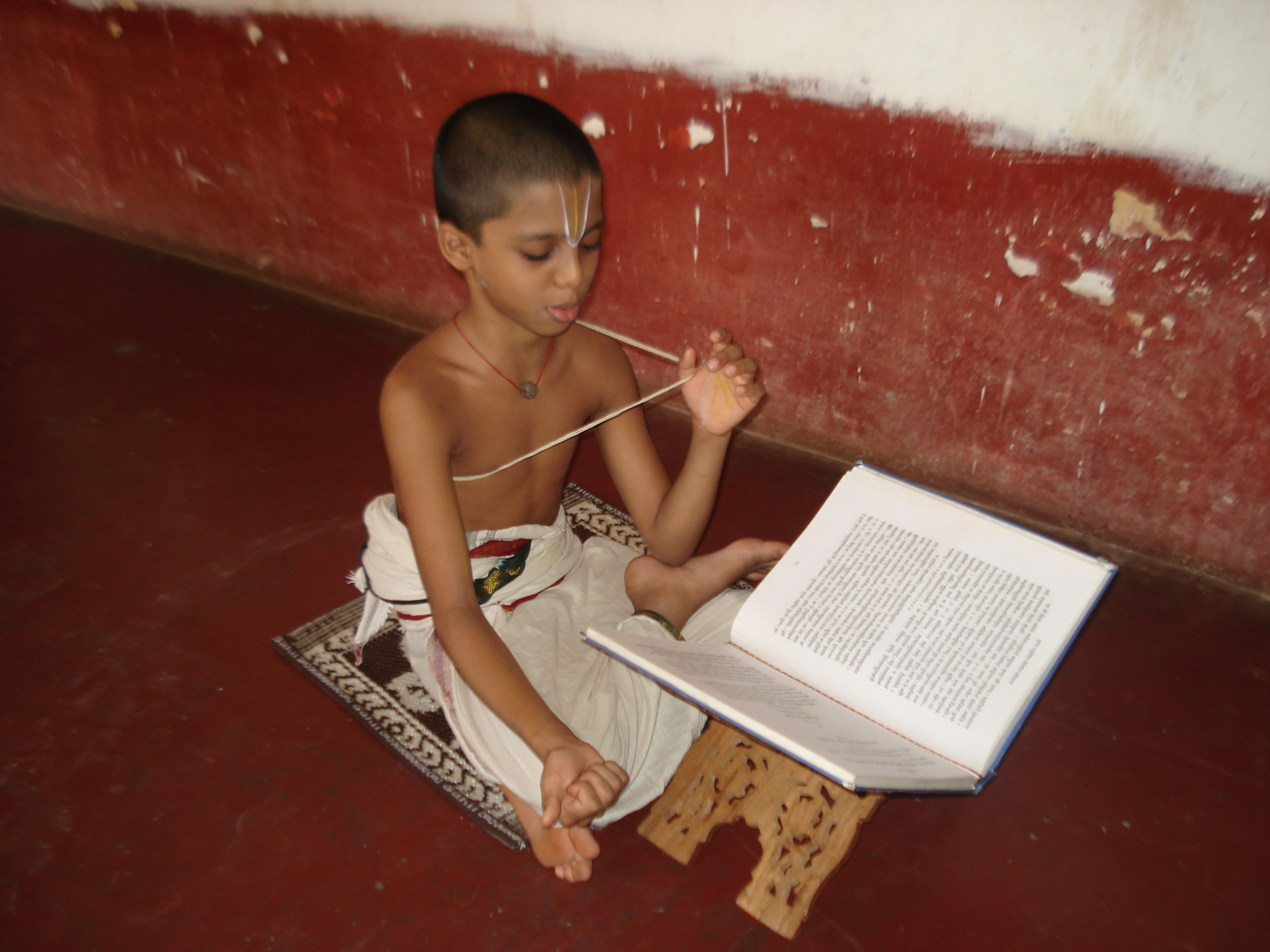 Student learning Veda. Location: Nachiyar Kovil, Kumbakonam, Tamilnadu.